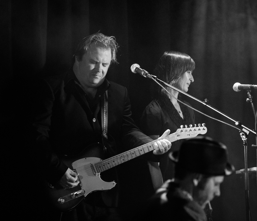 Omar Østli with Paal Flaata at Parkteatret. The concert took place on 29. September 2016 in Oslo. It marked the release of the album "Come tomorrow", the final in the triology "Songs of...".Lineup:Paal Flaata (guitar / vocal)Gøran Grini (keyboard)Omar Østli (guitar)Lars Ivar Borg (bass guitar)Jørn Raknes (lap steel guitar)Glenn-Vidar Solheim (drums)Madeleine Ossum (violin)unidentified (choir)unidentified (choir)unidentified (choir)Hans Foyn Friis (trombone)Petter Marius Gundersen (trumpet)Anders Hefre (saxophone)Maia Flaata (vocal)